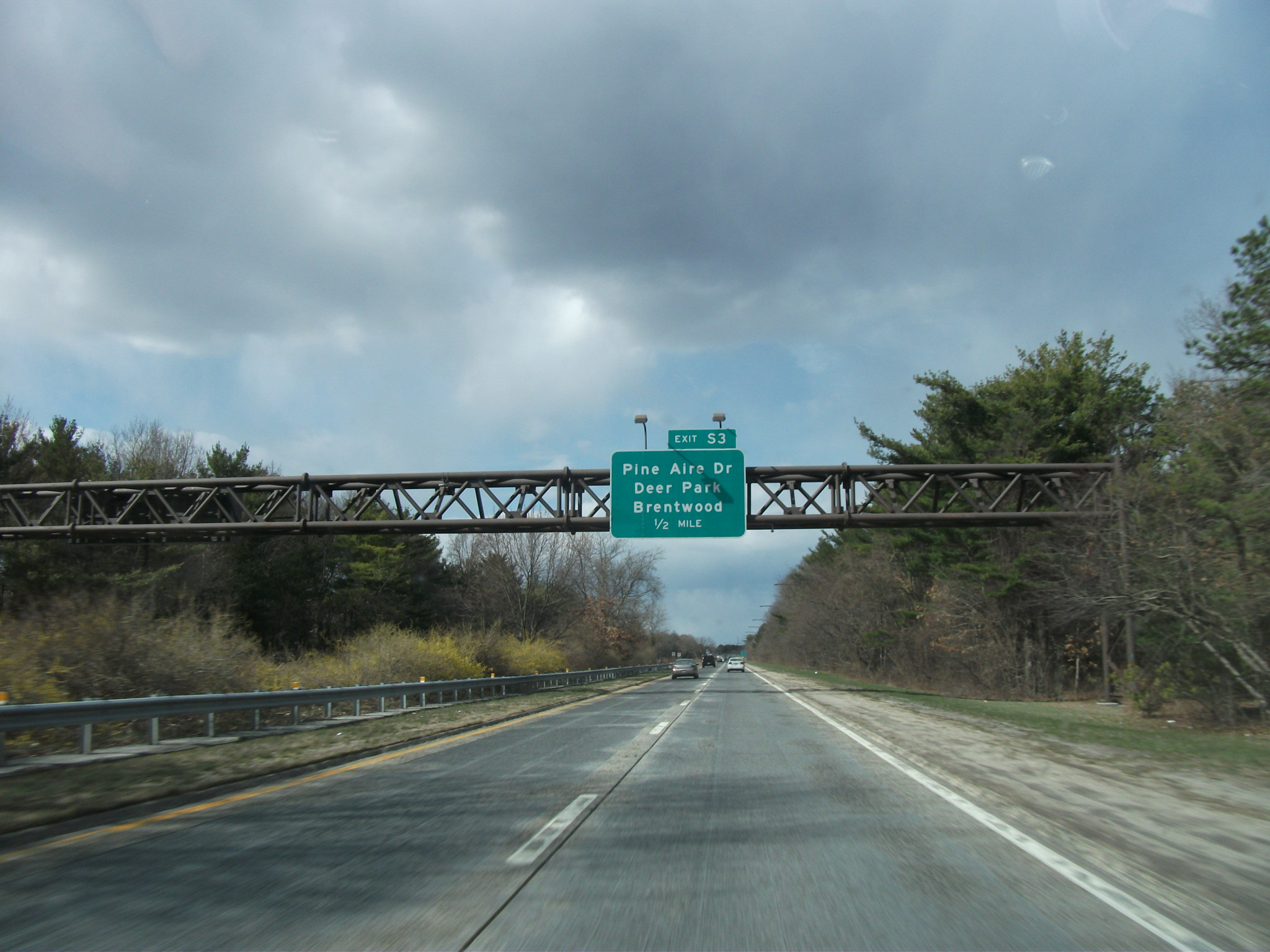 The Sagtikos State Parkway heading through Brentwood, approaching the interchange for Pine Aire Drive (Exit S3), a half-mile away.